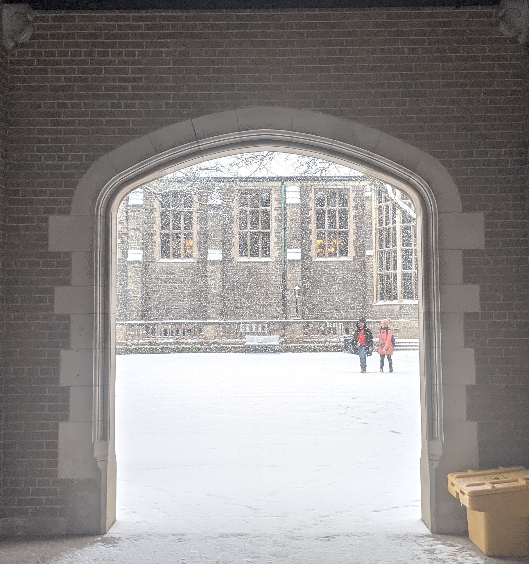 The Quad of Trinity College, Toronto, in winter, as seen from underneath Henderson Tower